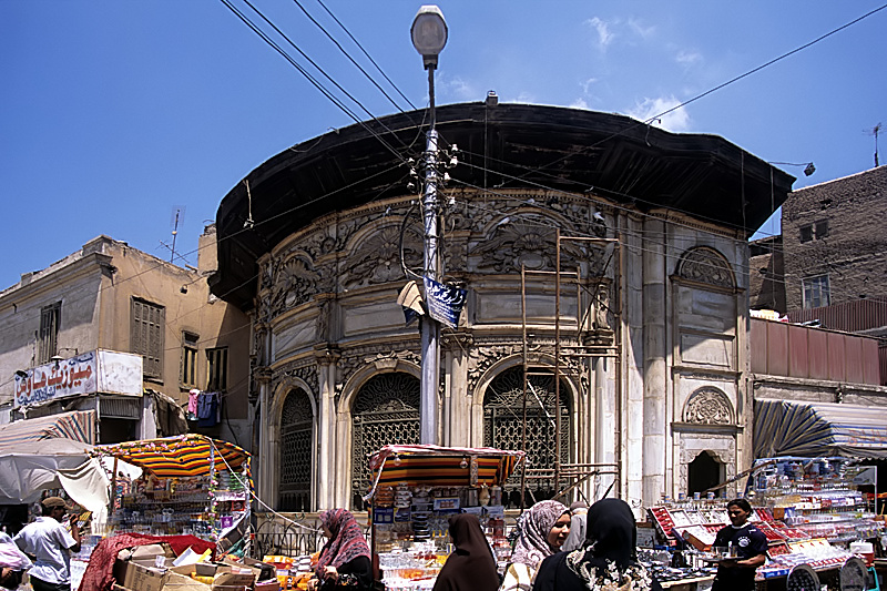 Sabil Ahmadi in Tanta, Egypt